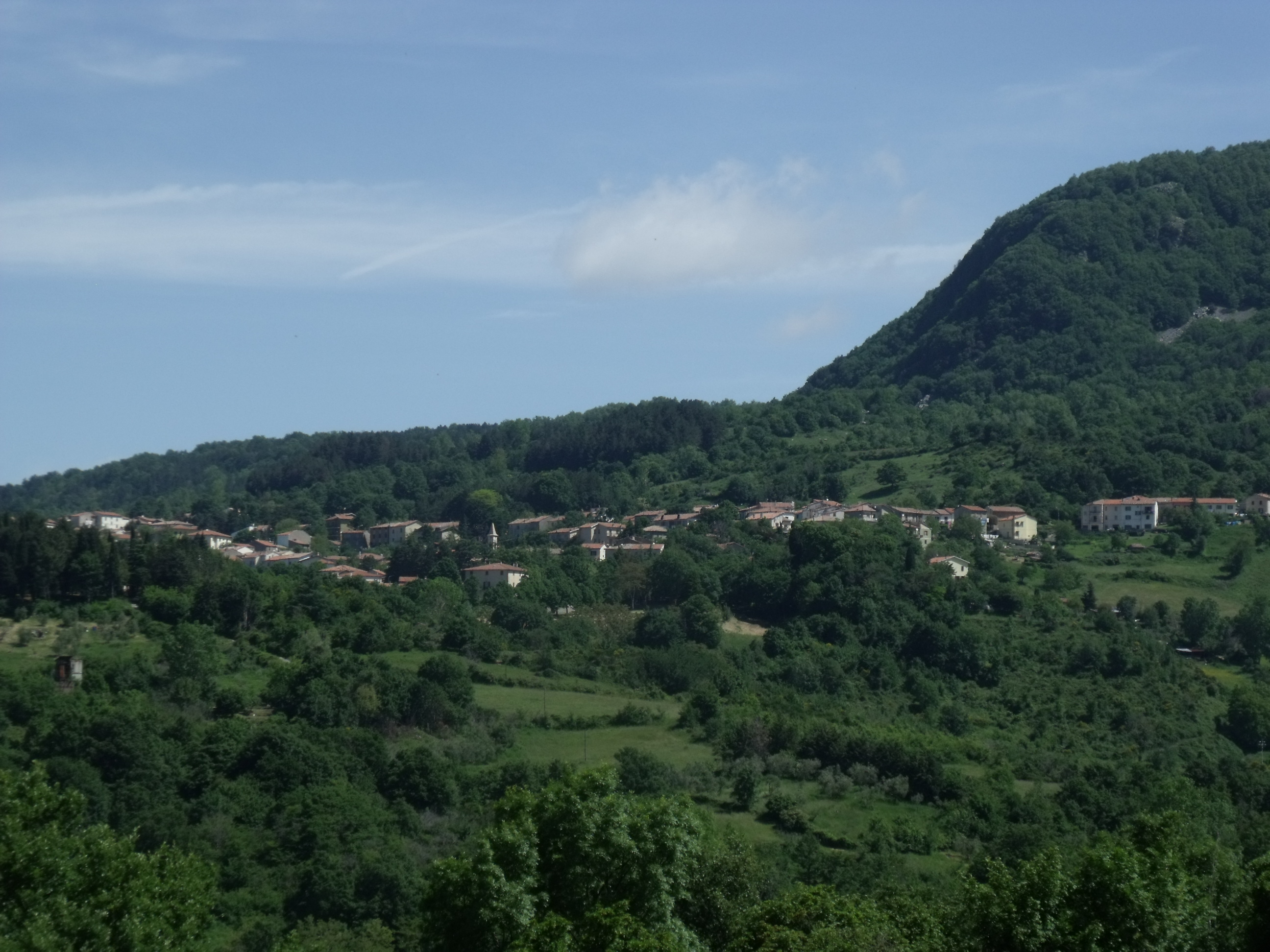 Panorama of Selvena, hamlet of Castell’Azzara, Monte Amiata, Province of Grosseto, Tuscany, Italy